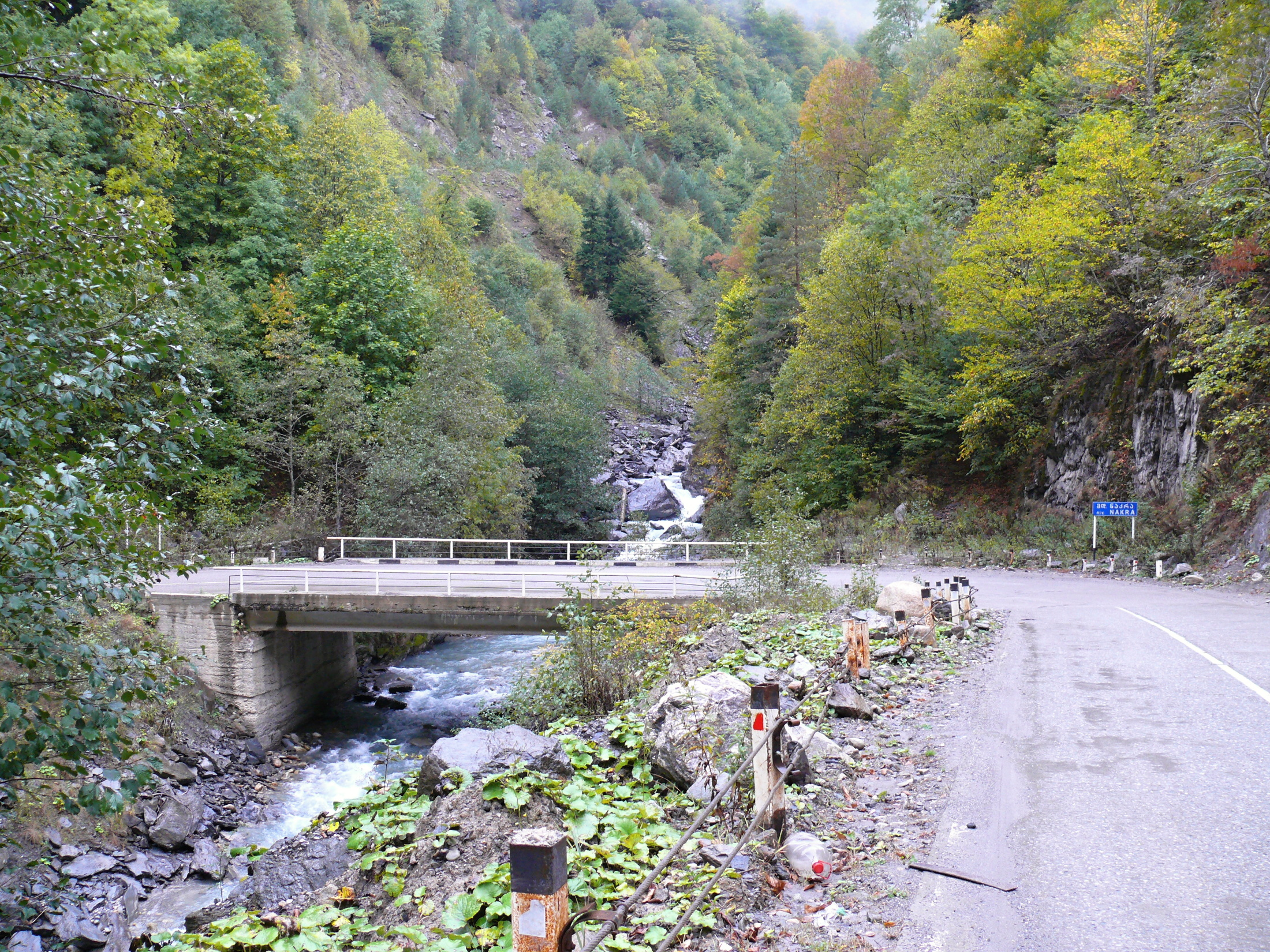 Bridge over Nakra river near its mouth to Inguri